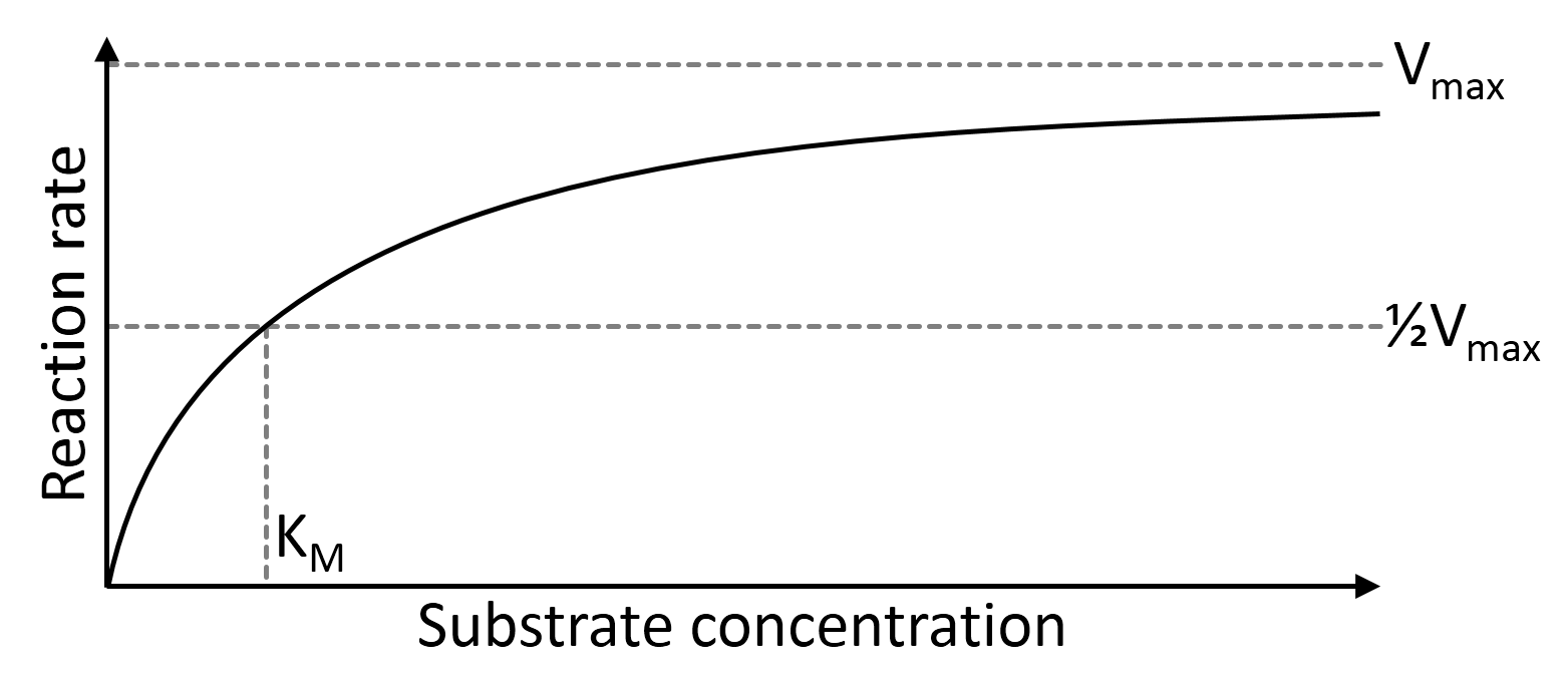 Saturation curve for an enzyme reaction showing the relation between the substrate concentration and reaction rate